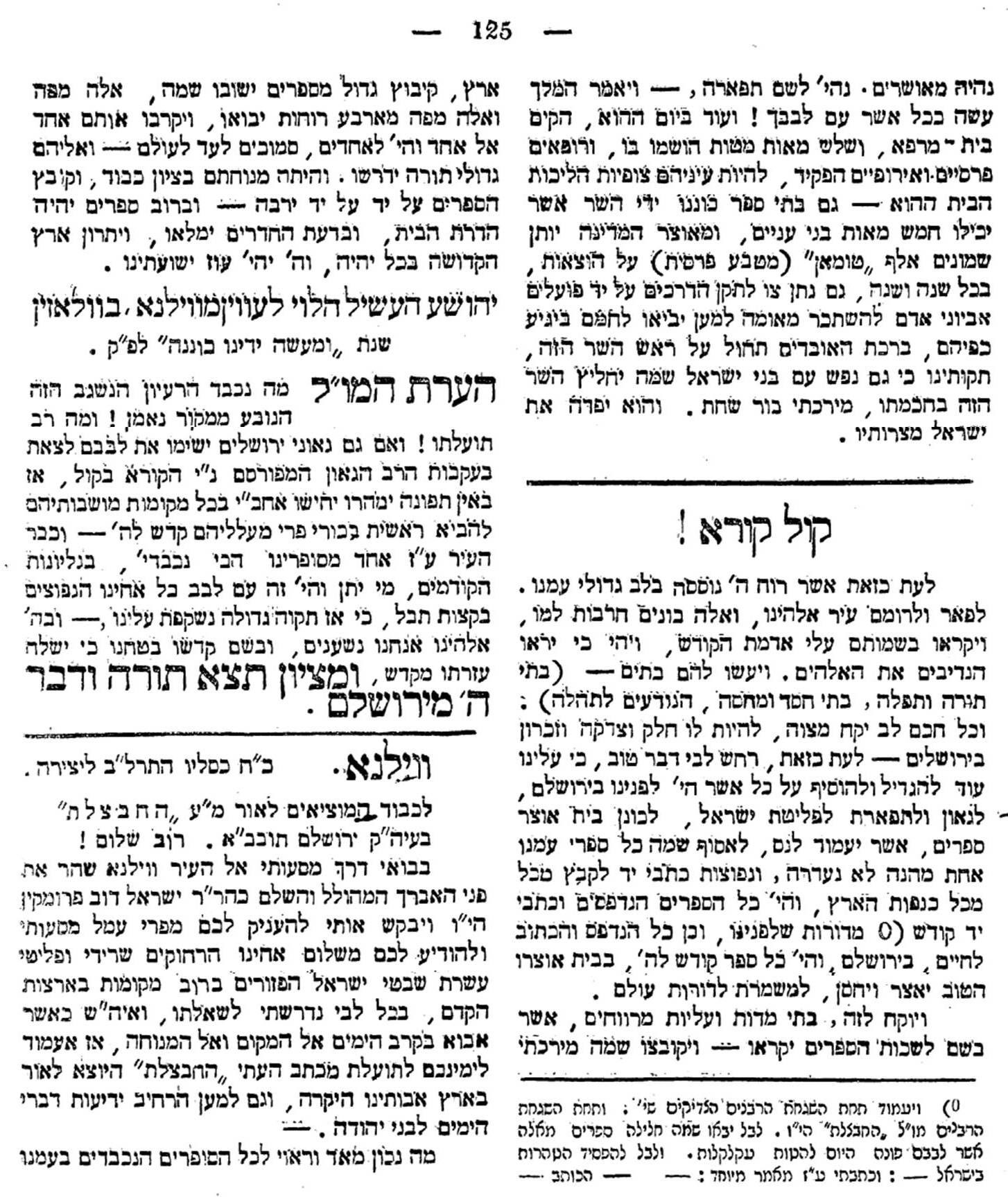 Habazeleth 26 Jan 1872 p. 4